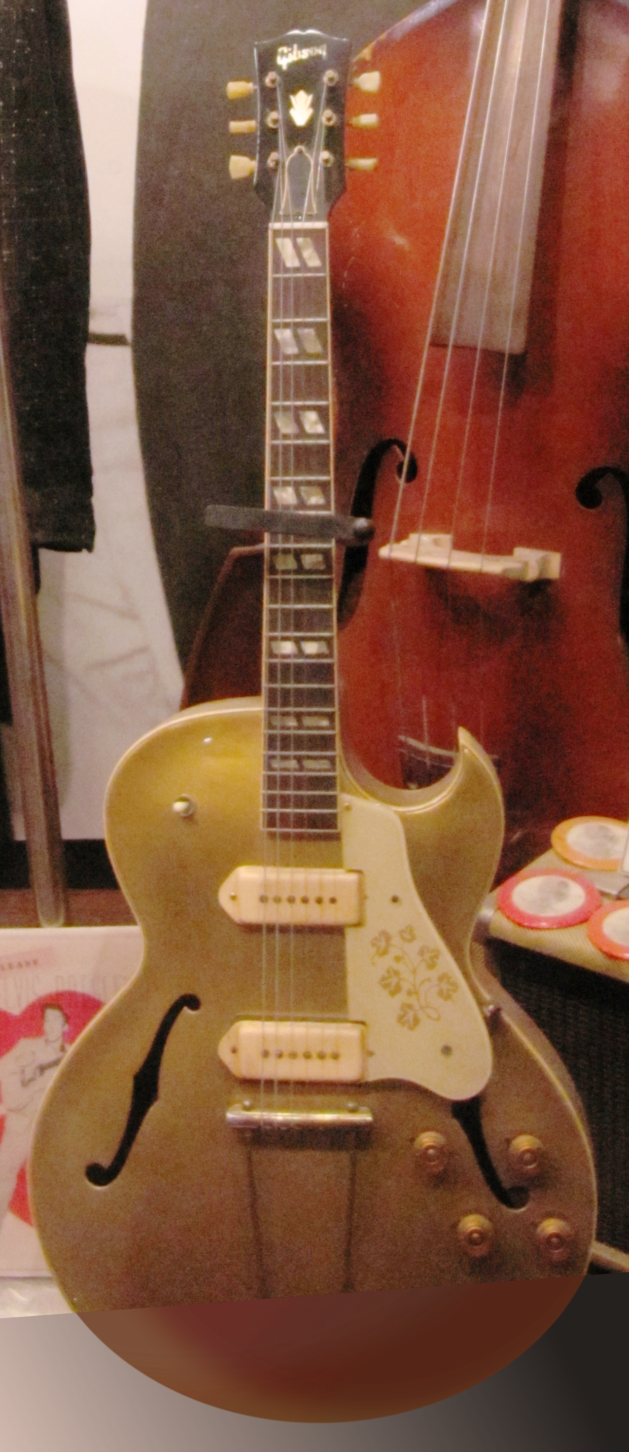 Gibson ES-295 Memphis Sun Studios Elvis instruments